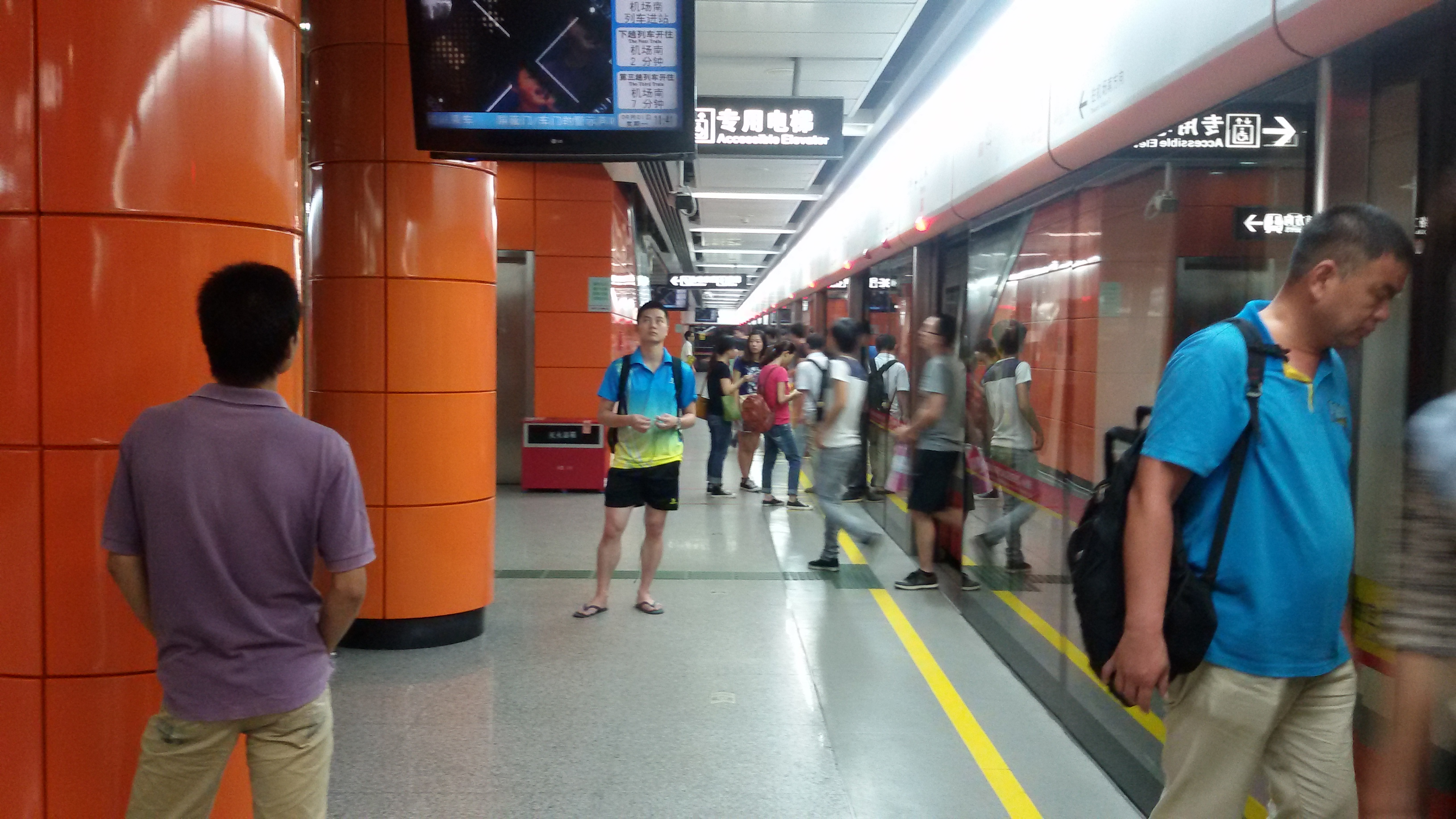 Station Platform for Renhe Station, Guangzhou Metro.